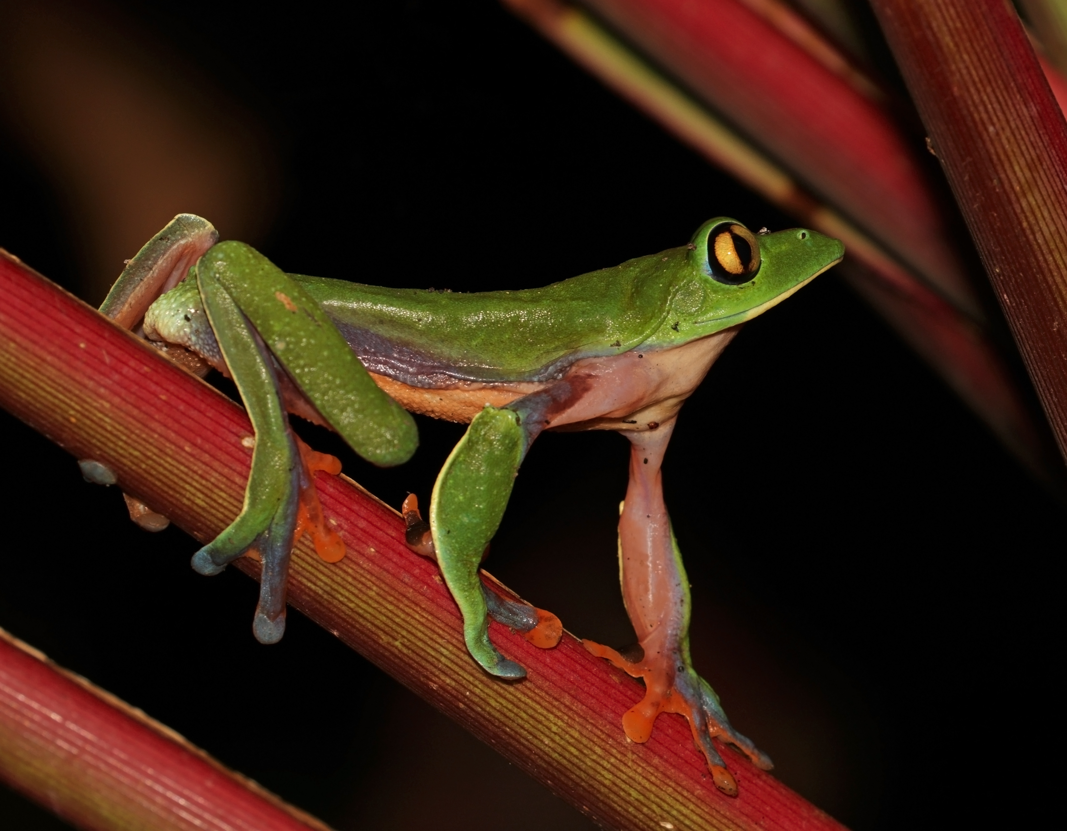 Golden-eyed tree frog (Agalychnis annae), Heredia, Costa Rica. I of a set of 3